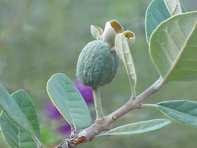 Species: Acca sellowiana Family: Myrtaceae Image No. 2